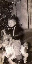 Diamond Dallas Page as a child.